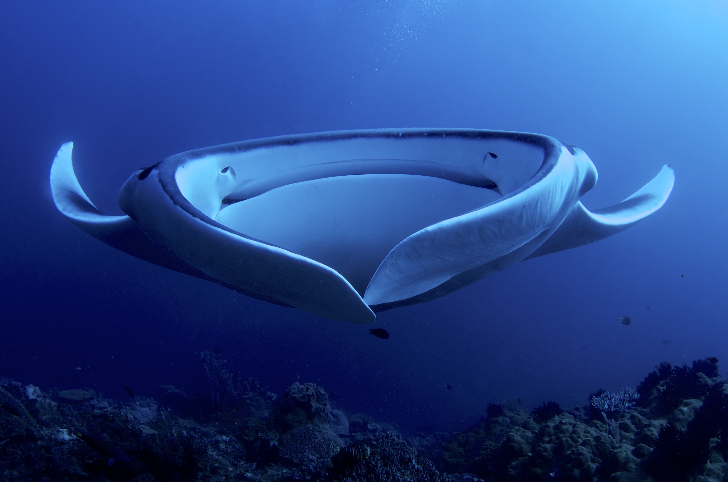 Front of a giant manta ray (Manta birostris) filter feeding. These huge animals (with a wingspan of up to 7 meters) swim in the strong current slowly flapping their 'wings' (pectoral fins) with amazing elegance. Raja Ampat, West Papua, Indonesia.